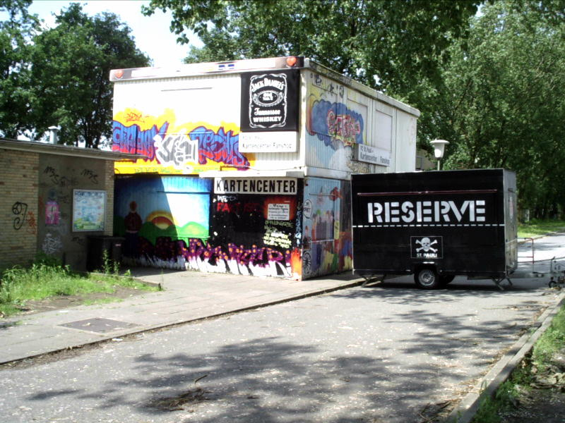 Gift Shop for soccer club, FC St. Pauli in St. Pauli (Hamburg) Germany